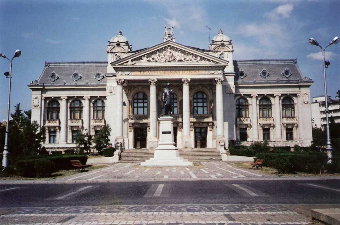 national theatre , iasi , rumania